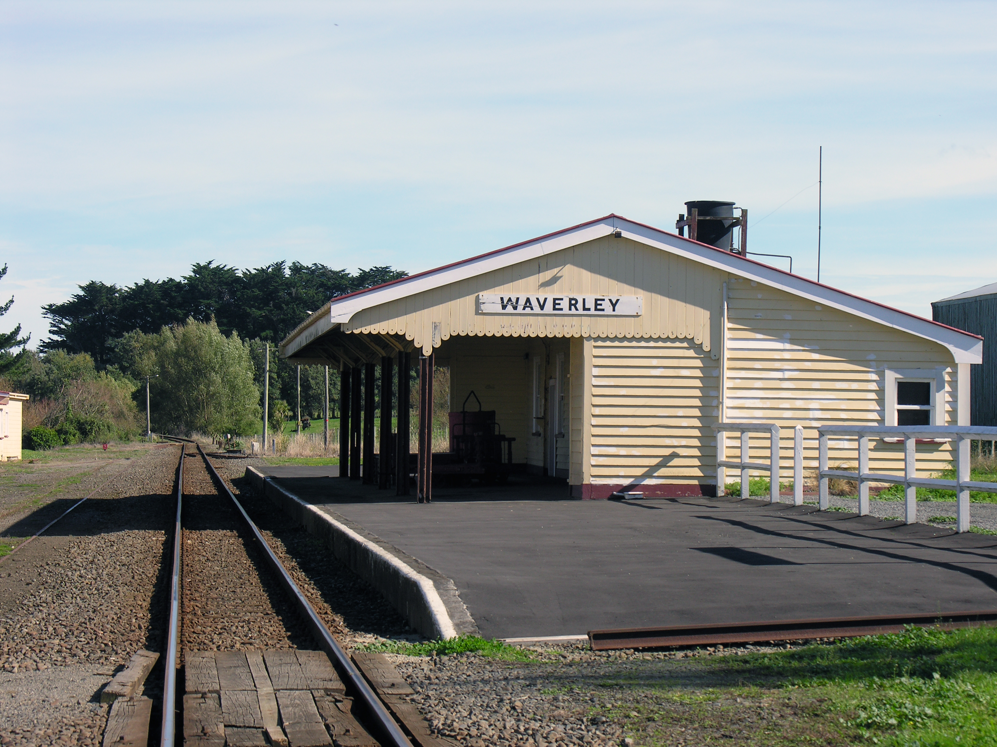 Waverley Railway Station, in Waverley, Taranaki, New Zealand